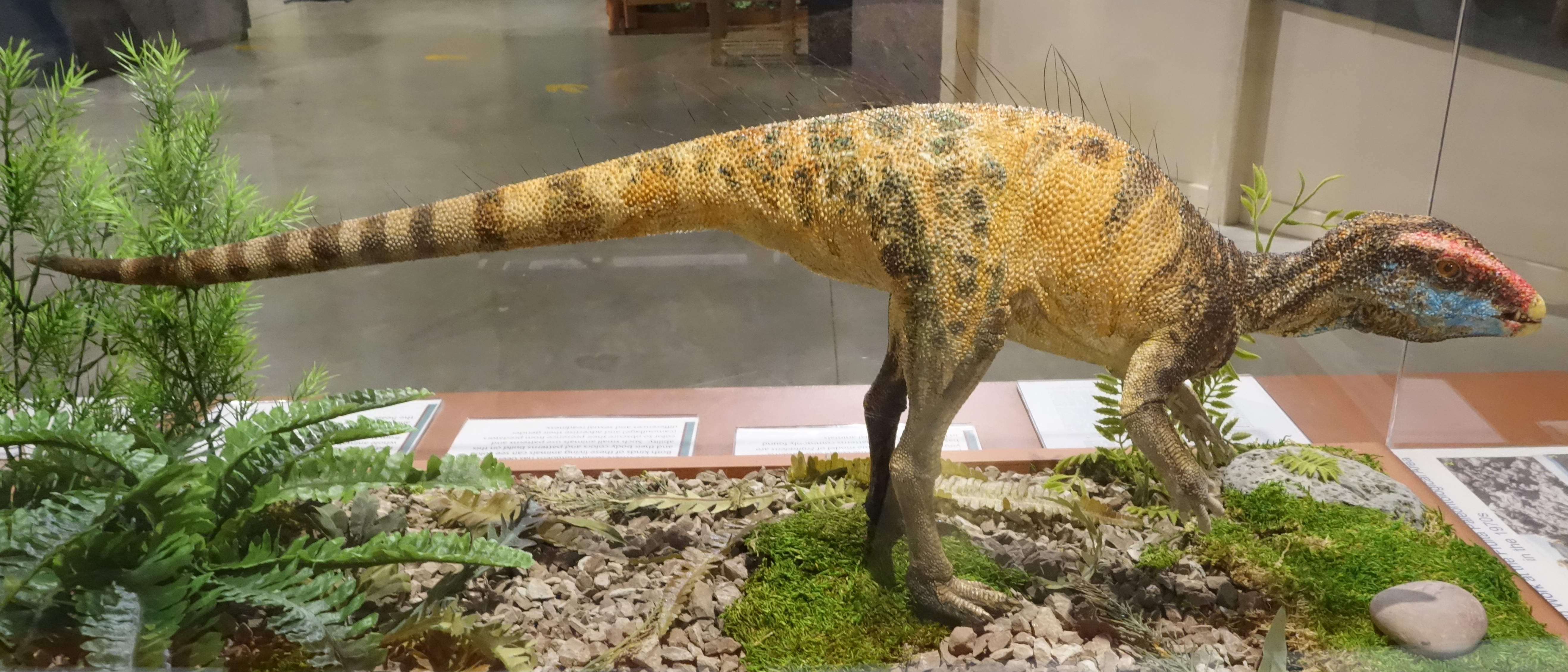 Model of Fruitadens, on display at the Museum of Western Colorado’s Dinosaur Journey Museum in Fruita, Colorado